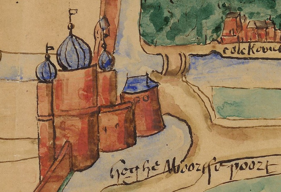 This file has been extracted from another file: Leiden map Sluyter.jpg Detail showing the Costverlorenpoort (city gate)